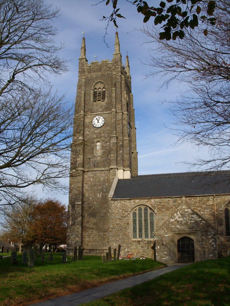 Talskiddy 17:16, 13 November 2007 (UTC)